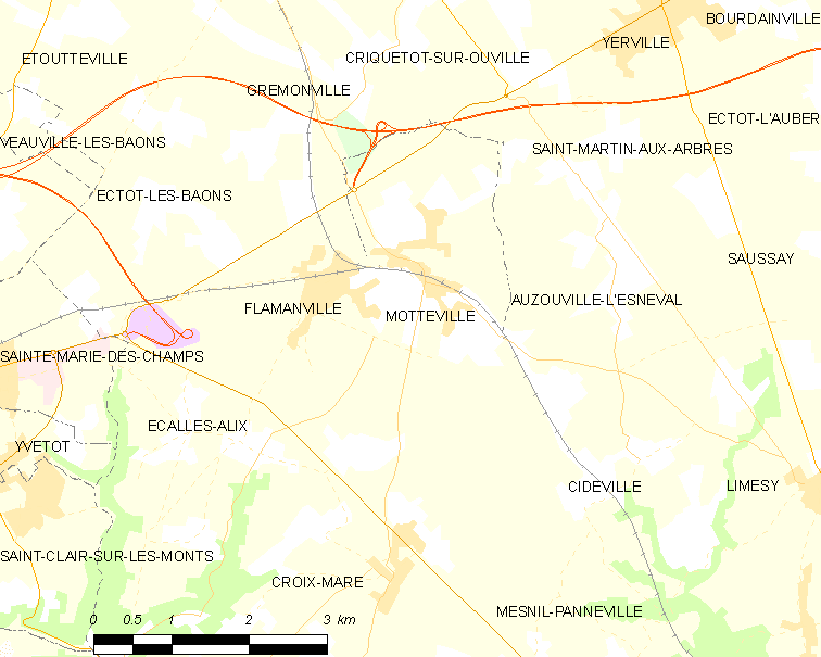 Map of French municipality Motteville